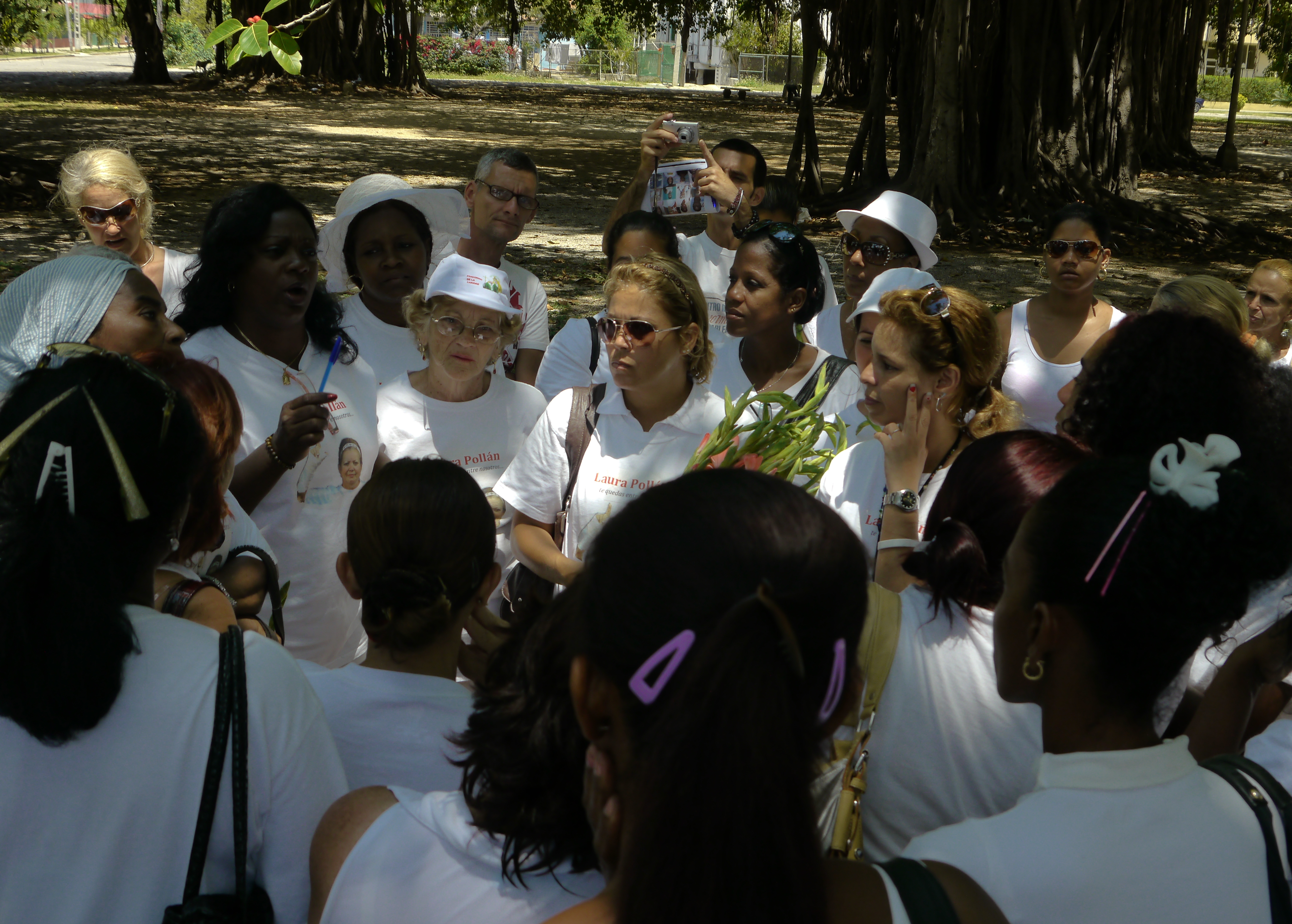 Bertha Soler addressing fellow Damas de Blanco in Havana after a regular Sunday demonstration